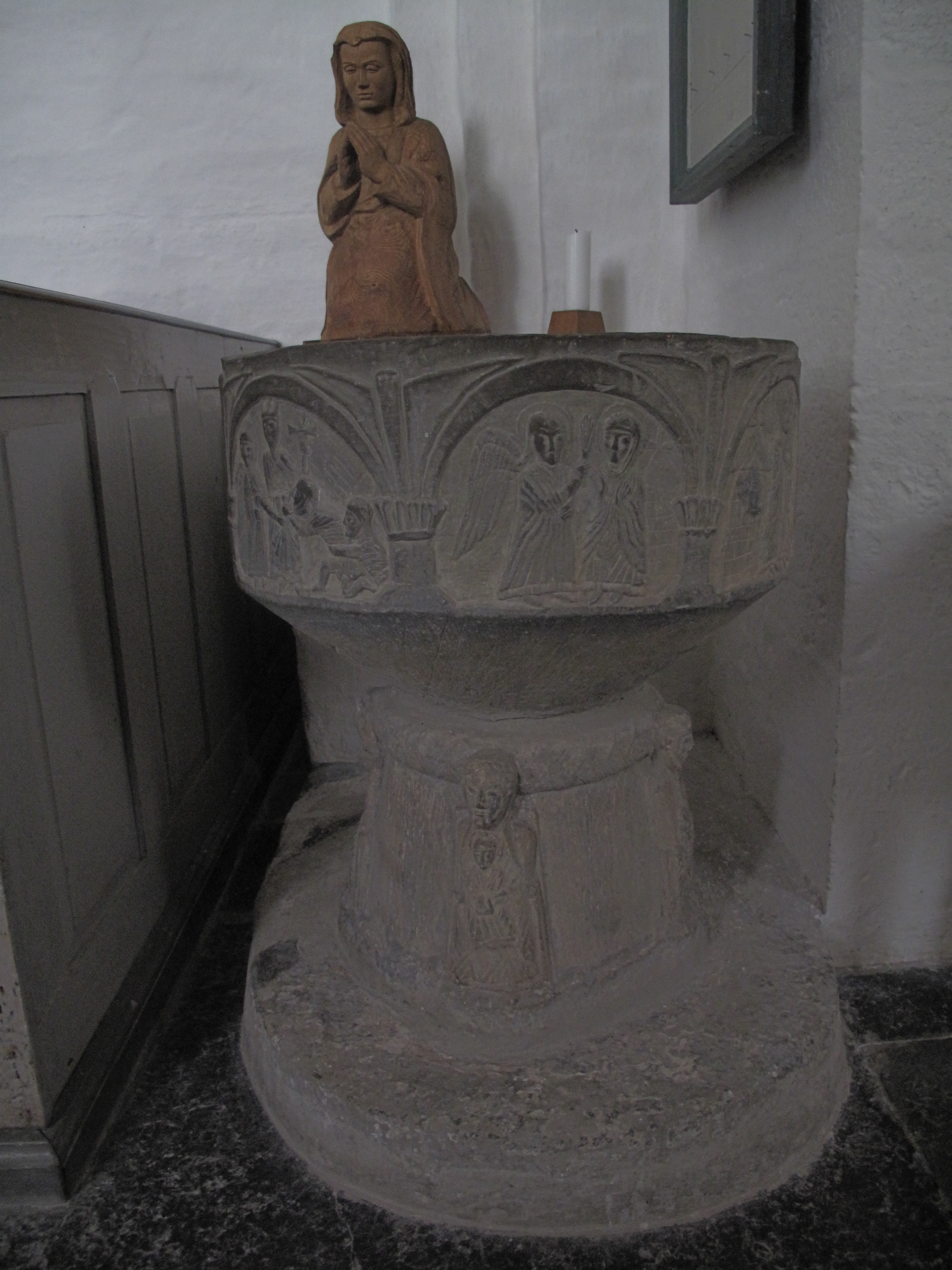 Baptismal font by Sighraf in Hannas church, Sweden